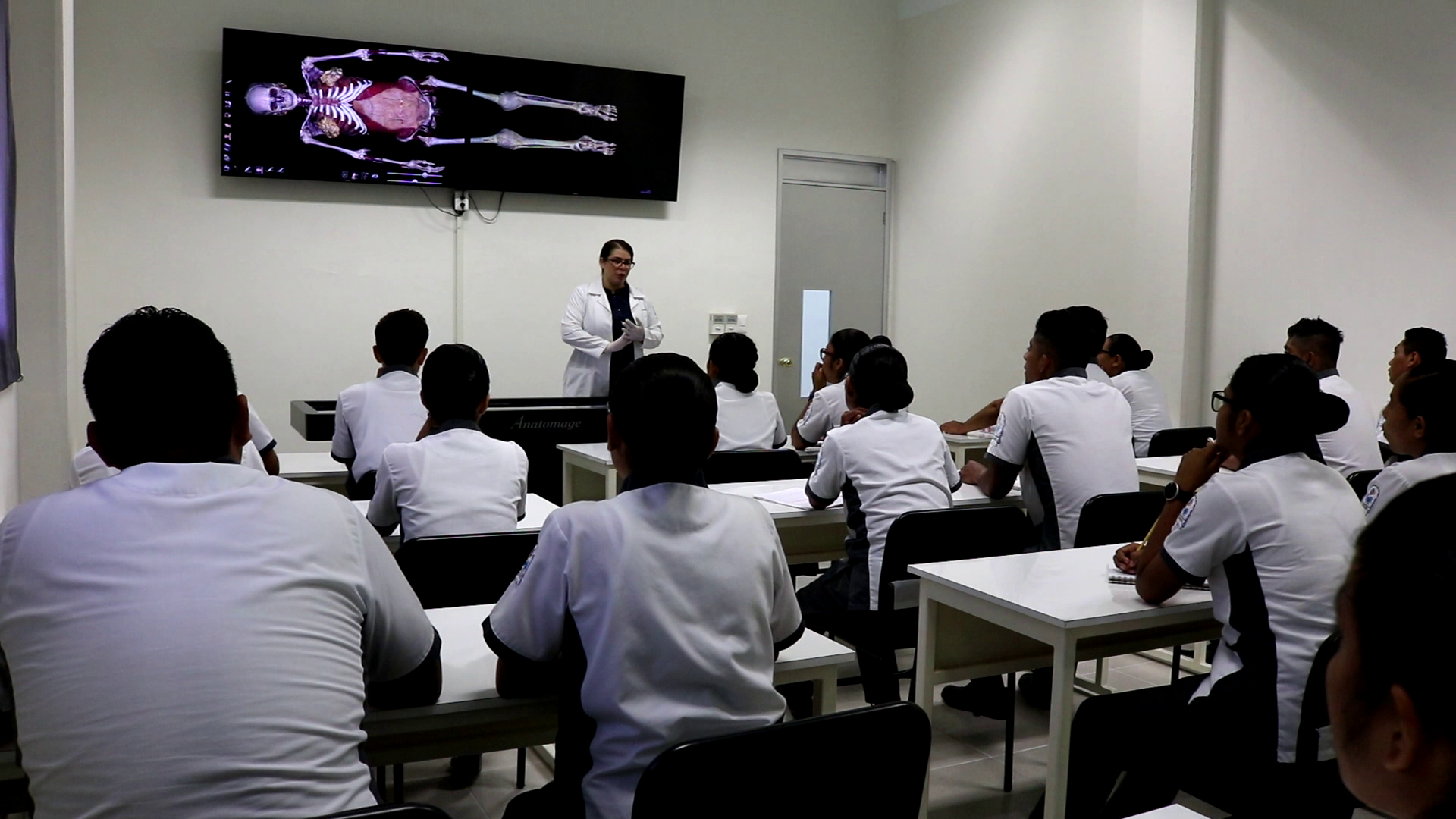 This is the Anatomy Room in UMAR, Puerto Escondido Campus where the students of the Nursing Bachelor's degree take class.